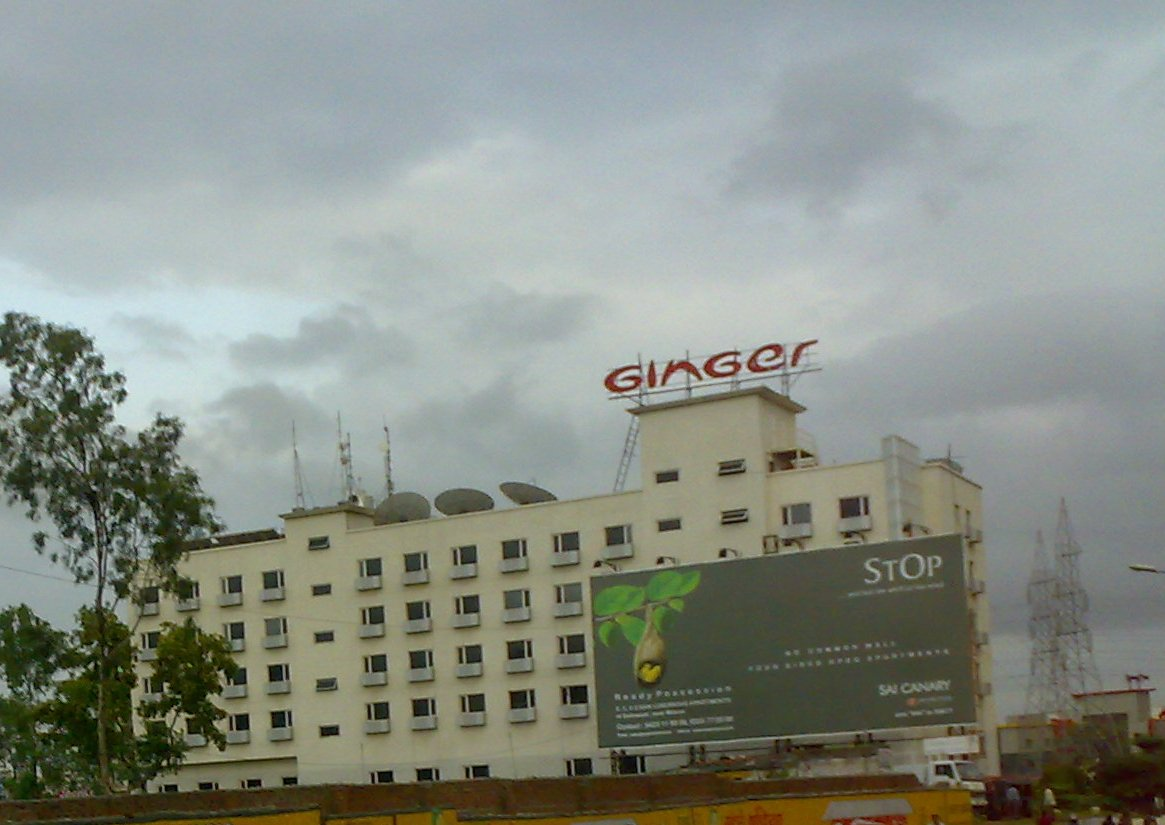 This is a hotel in Wakad.